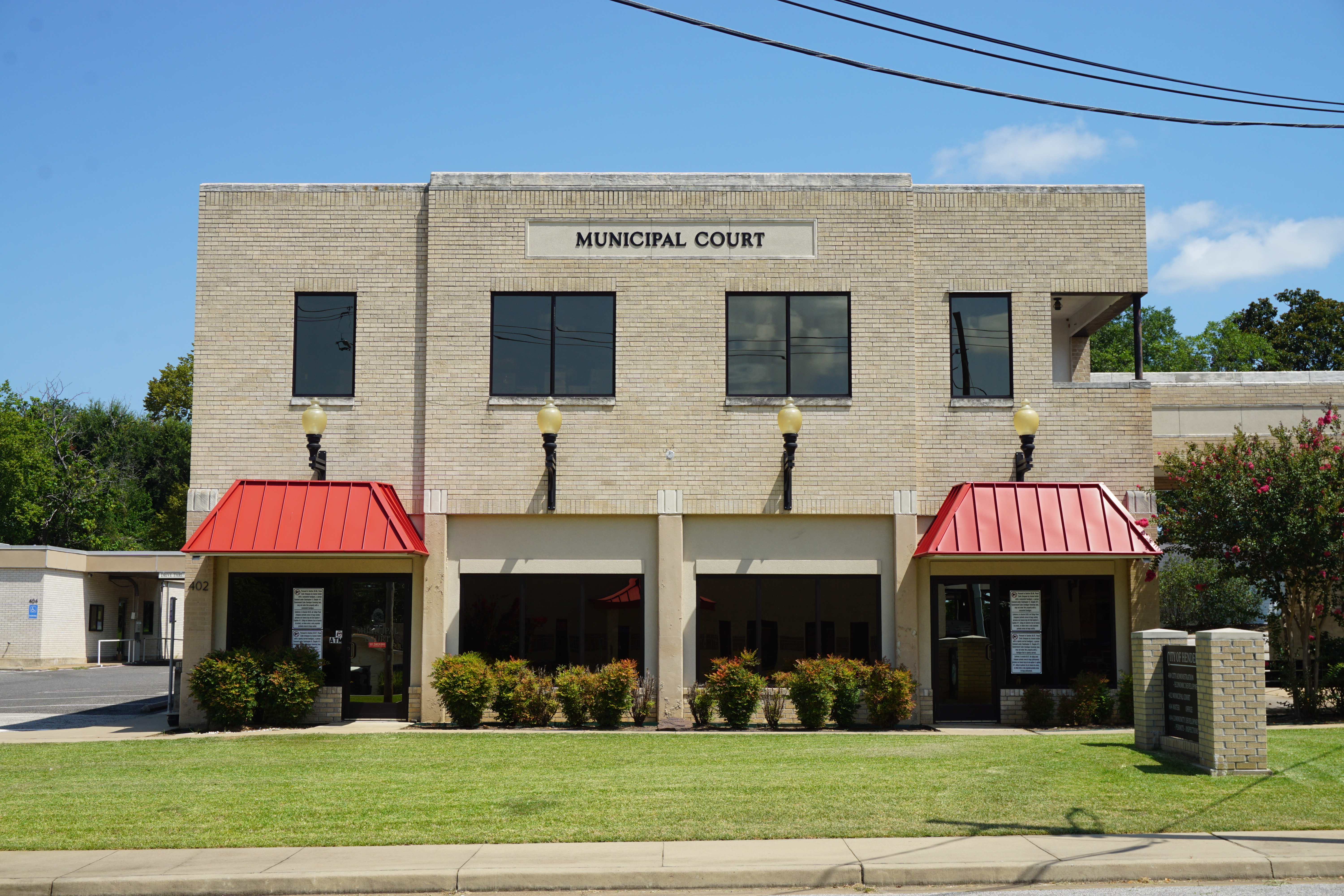 The Municipal Court building in Henderson, Texas (United States).